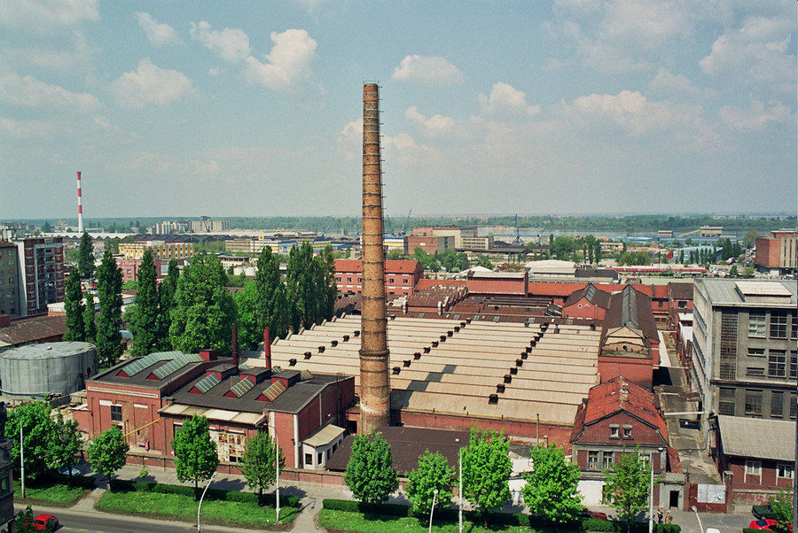 Factory Beogradski pamučni kombinat Srpski (latinica): Fabrika Beogradski pamučni kombinat